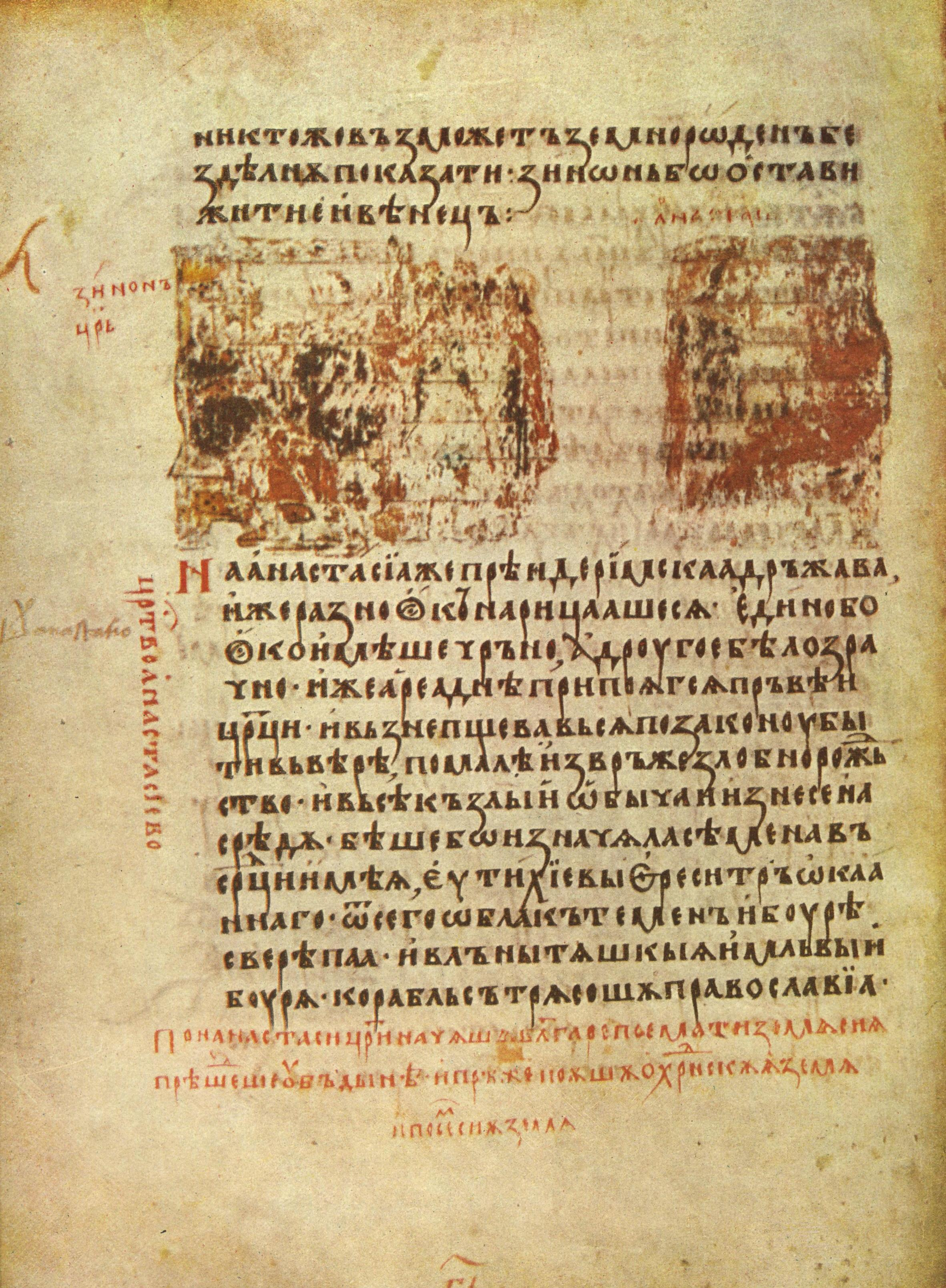 Miniature 36 from the Constantine Manasses Chronicle, 14 century: Emperors Zeno and Anastasius I.